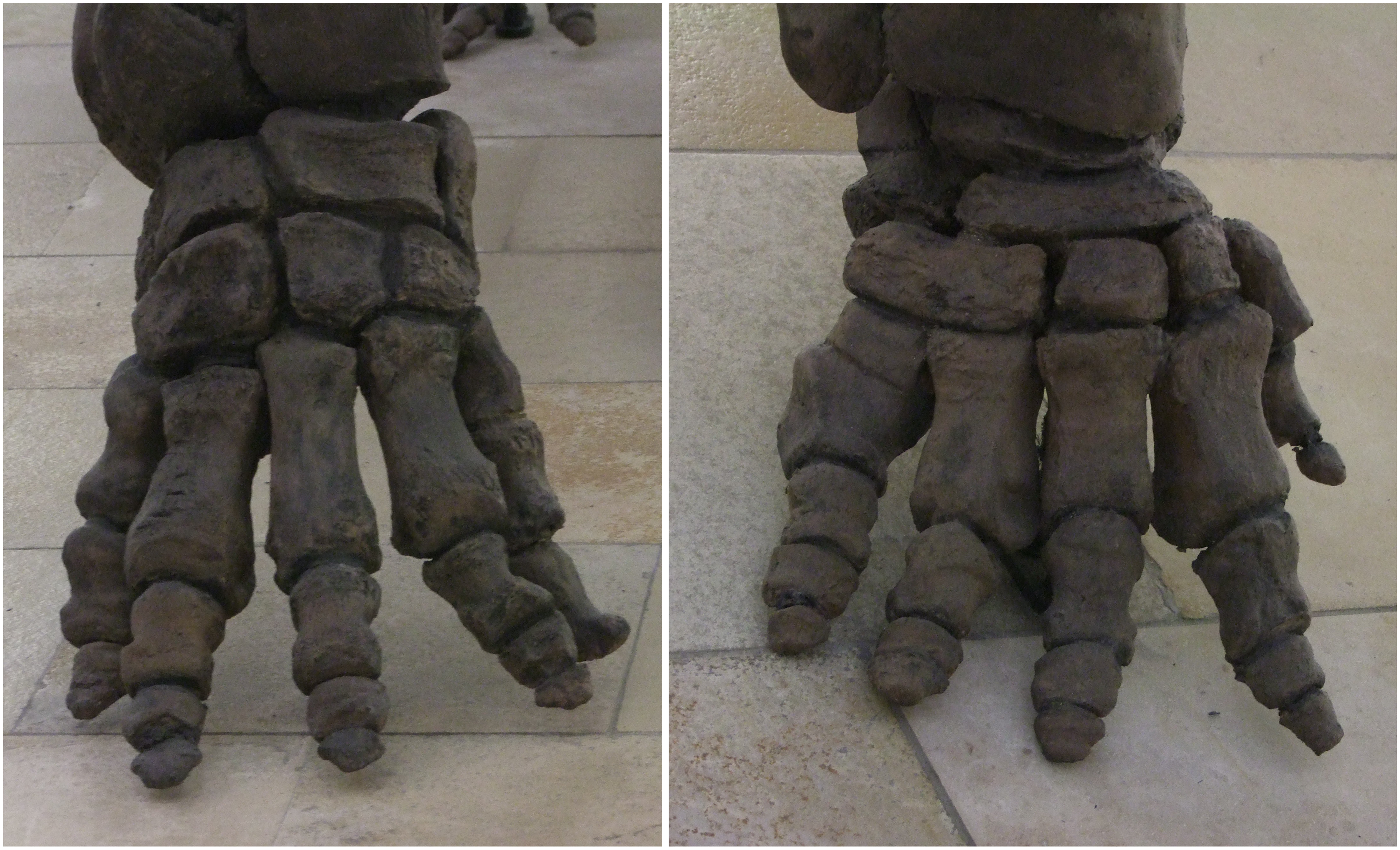 Manus (left) and pes (right) of Mammuthus primigenius, Mammoth from Pfännerhall, Geisel valley, Saxony-Anhalt, Germany, Middle Pleistocene, ca. 200.000 BP, pictured in the Landesmuseum für Vorgeschichte Sachsen-Anhalt, Halle (Saale)